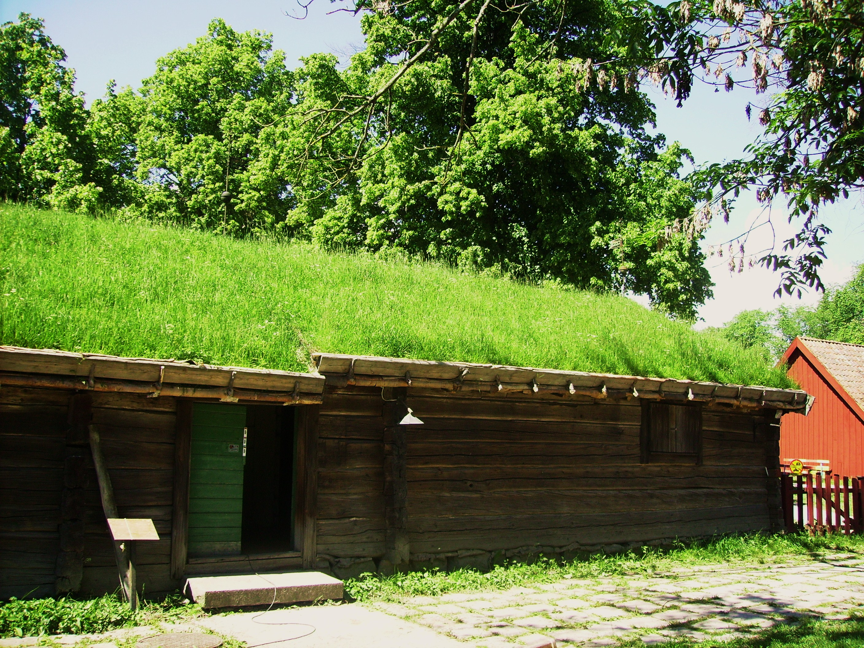 Picture of Tovastugan in Nyköping